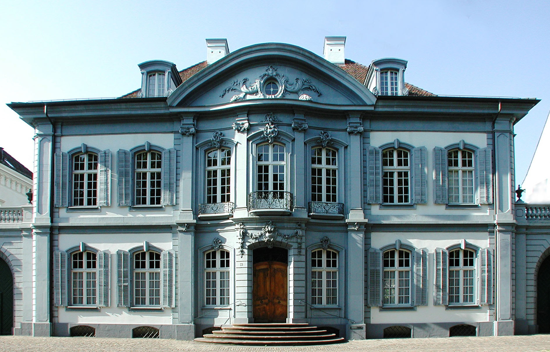 Wildt'sches Haus, Basel, Switzerland